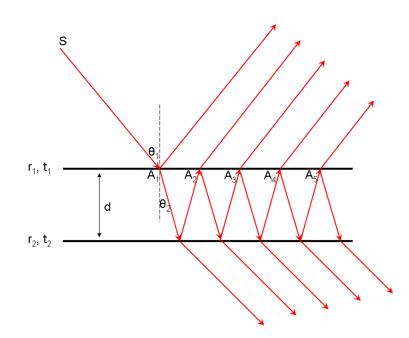 An illustration of multiple beam interference